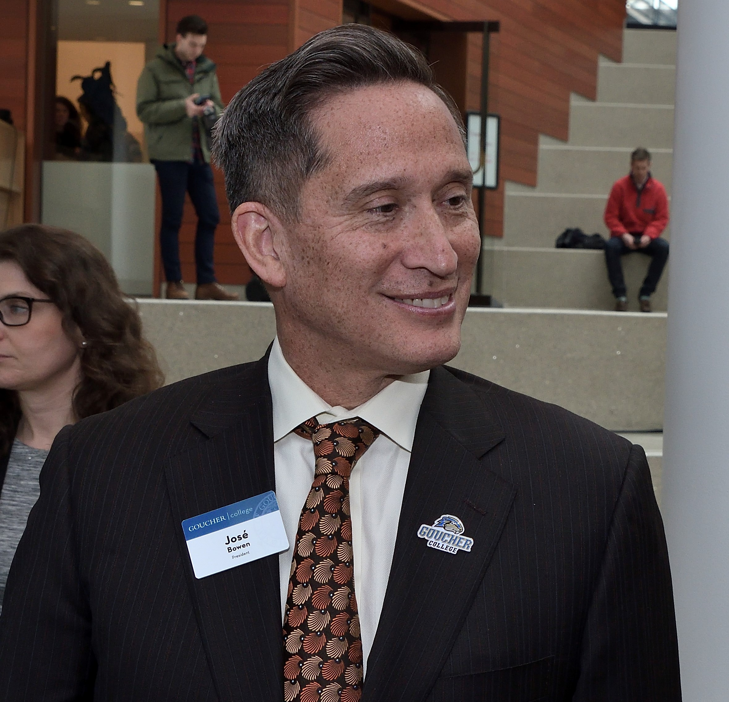 Jose Bowen at a Goucher College political forum in March 2018